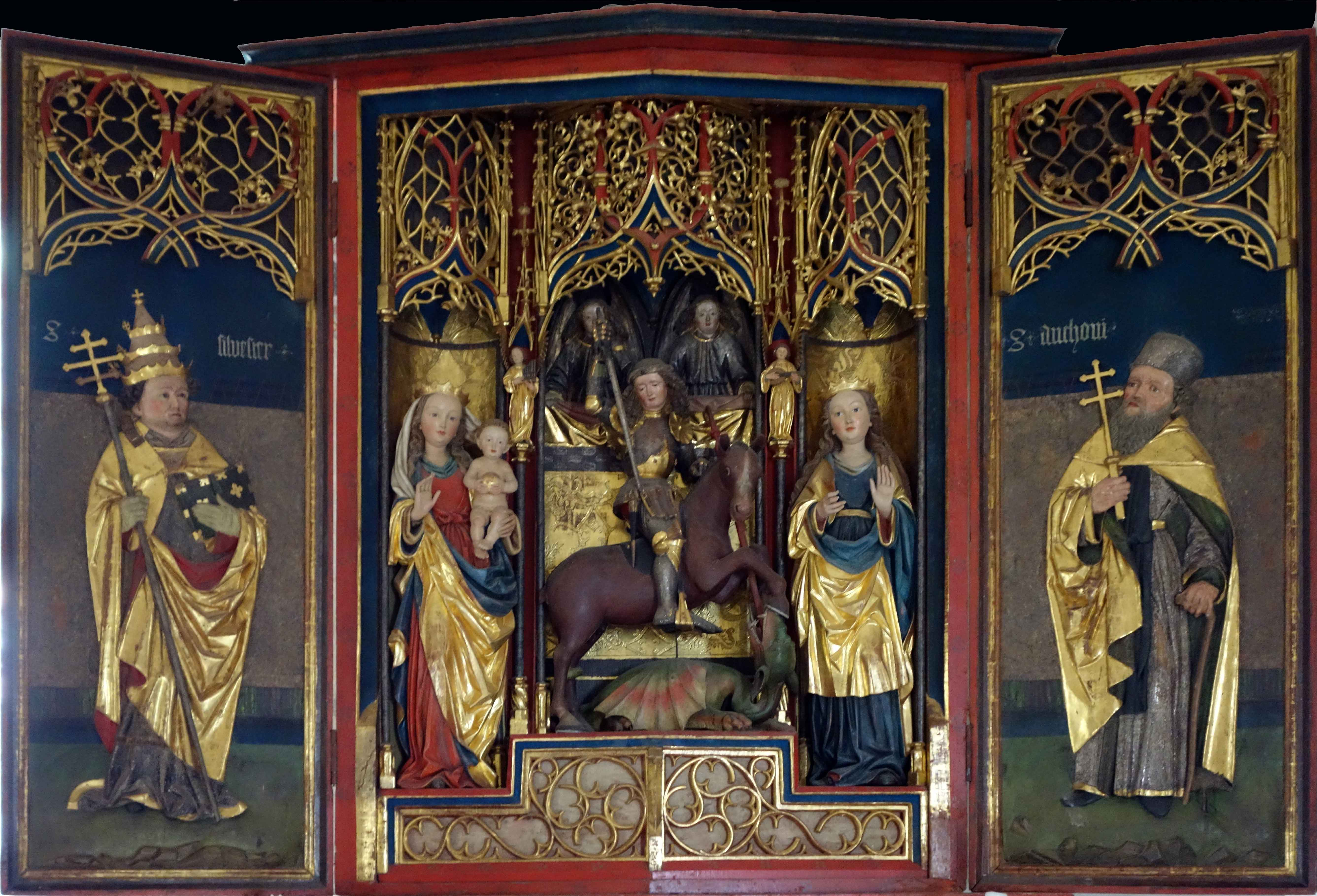 Triptych in the church of Saint George in Schenna